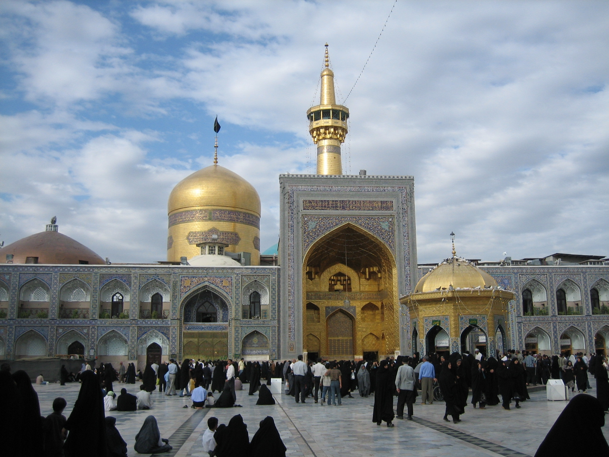 The Imam Reza shrine in Mashhad, Iran is a complex which contains the mausoleum of Imam Reza, the eighth Imam of Twelver Shi'ites Author: IA Source: Taken at the shrine of Imam Ali Reda in Mashad, Iran, in August, 2005.